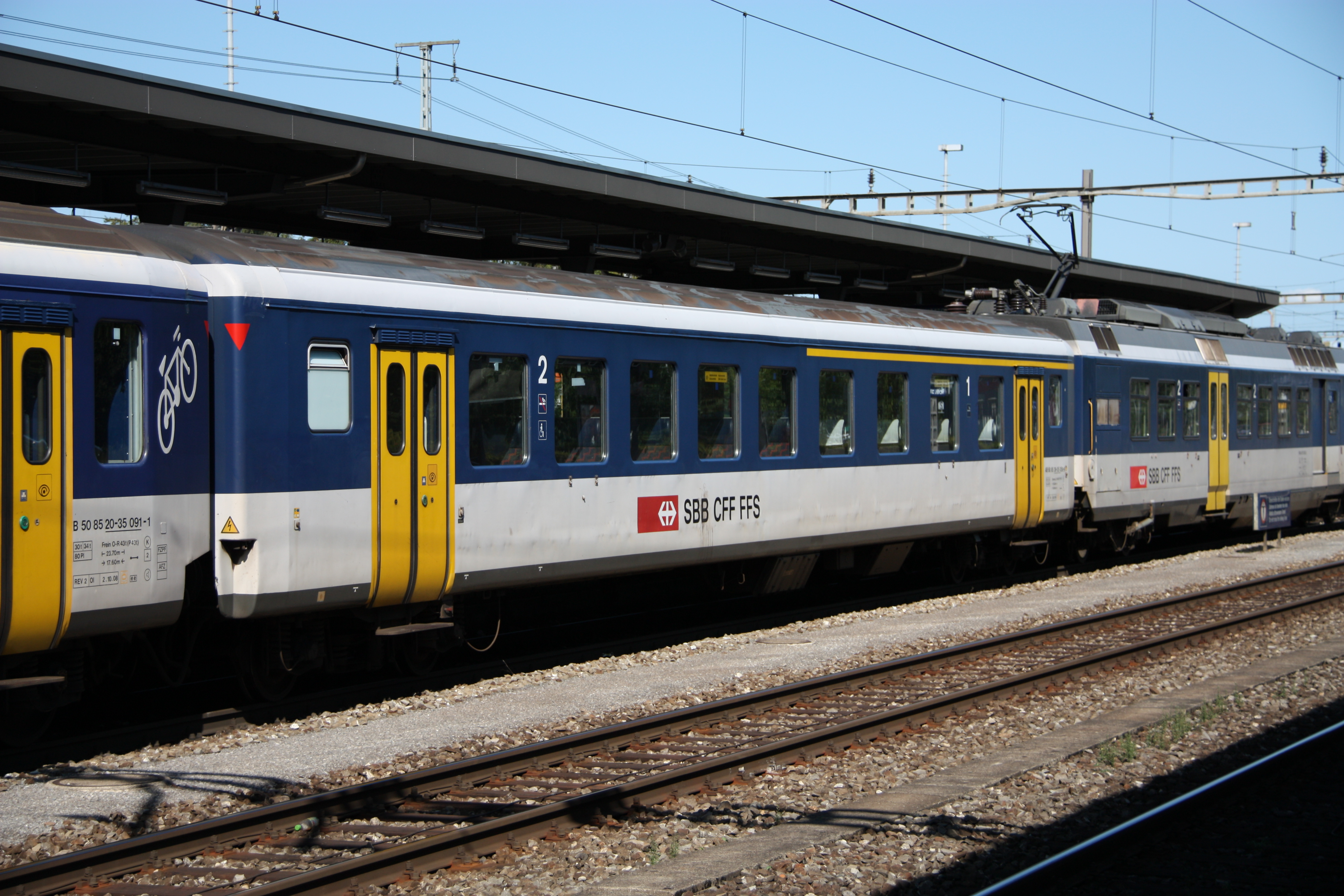 Rotkreuz train stationNPZ with AB EWIIS26 7057 arrives from Aarau and departs as S26 7362 to Othmarsingen